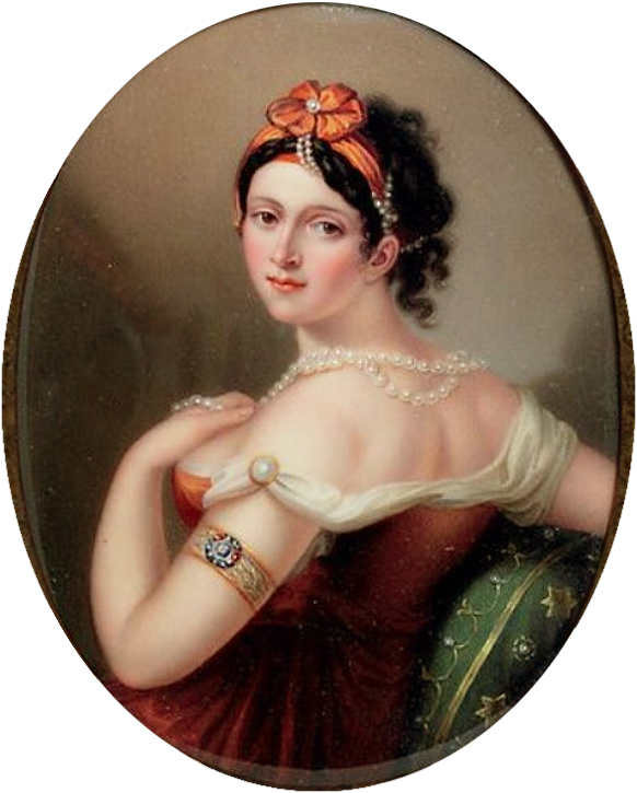 Elizabeth Conyngham, née Denison (1769-1861) was the wife of the 1st Marquess Conyngham. At the time this portrait was painted, she was Countess Conyngham. She was the last mistress of George IV.